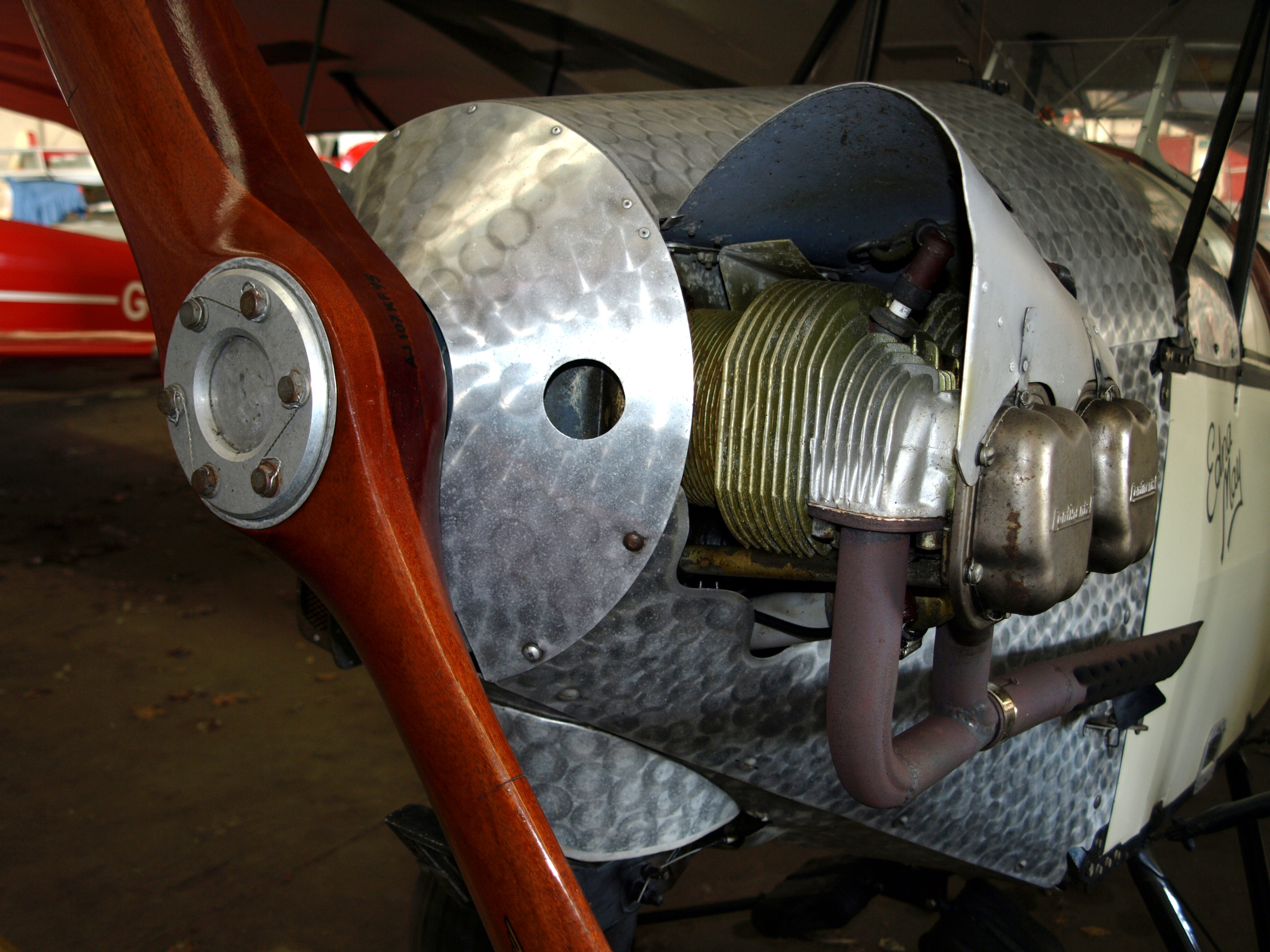 Continental A65 aircraft engine